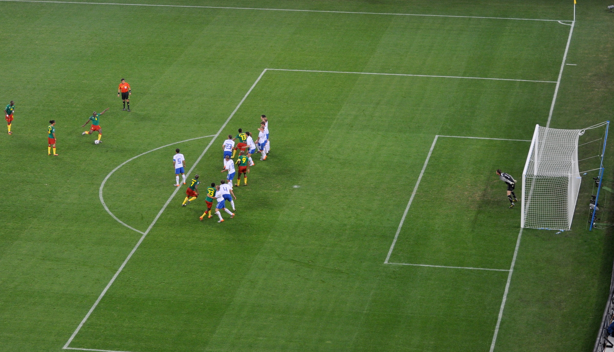 This free-kick lead to the penalty which Samuel Eto'o converted.